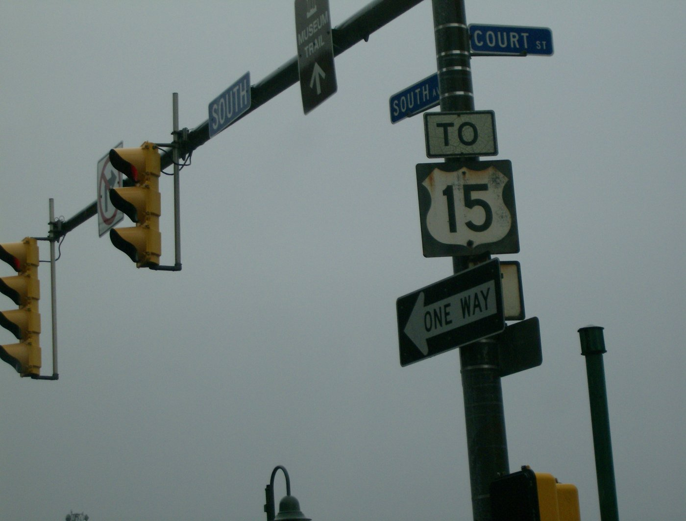 The "To US 15" assembly at the intersection of South Avenue and Court Street in downtown Rochester, New York. Based on the look of the sign, this assembly probably dates back to when US 15 entered Rochester. The route that this sign directs travelers to is now NY 15, but the sign is still correct as NY 15 connects to US 15 in Corning 80 miles to the south.